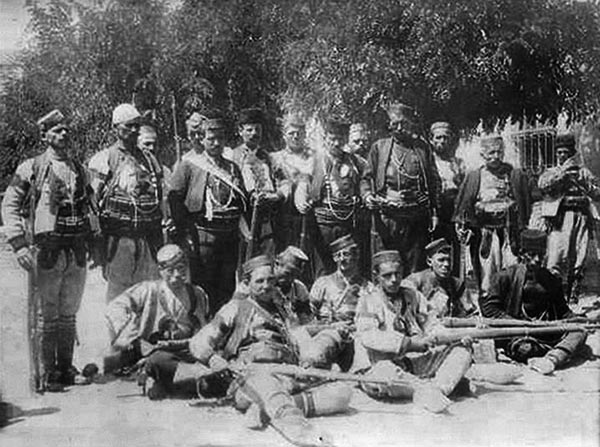 Serbian Chetnik fighters during the Hurriyet. Individuals in the photograph include: Gligor Sokolović, Jovan Dolgač, Jovan Babunski, Trenko Rujanović and others.